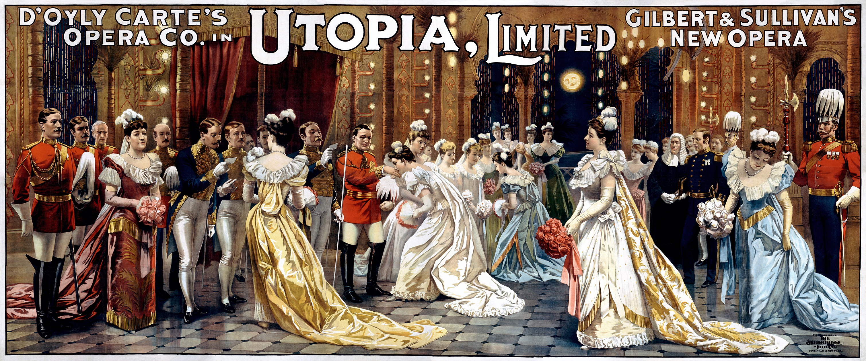 A promotional poster of D'Oyly Carte's Opera Co. in Utopia, Limited, Gilbert & Sullivan's opera.